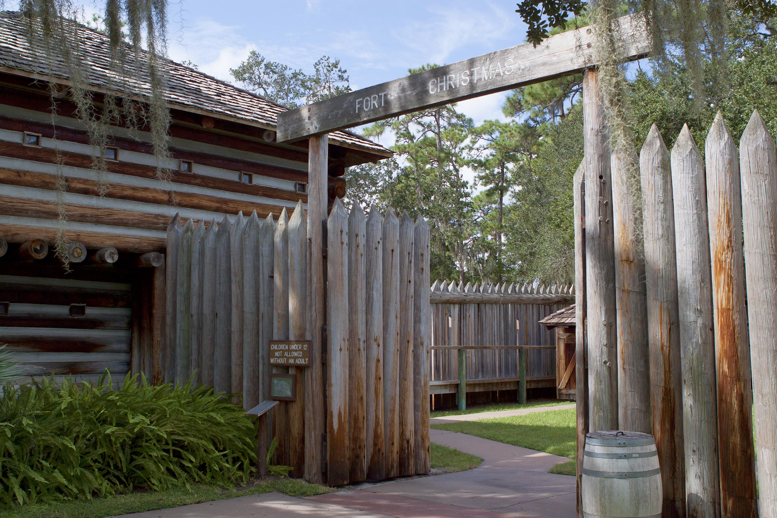 The entrance to the recreated Fort Christmas in Christmas, Florida. The fort is built with logs and chinked with cement, but provides an accurate representation of the original fort, built by the US Army in 1837, during the Second Seminole War on a site thought to be less than a mile from this modern replica.